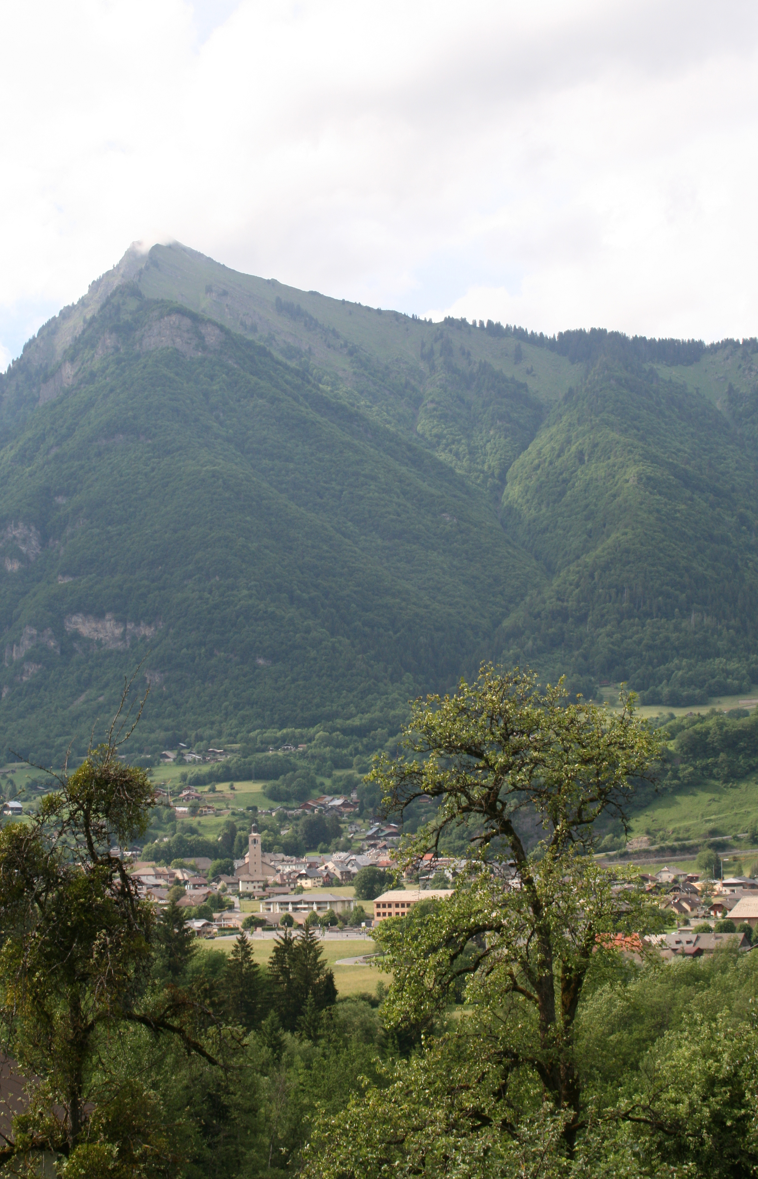 Taninges (Haute-Savoie - France), the village at the foot of the Pic de Marcelly.